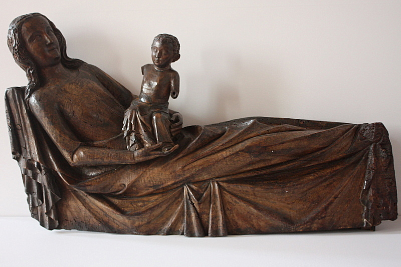 Gdańsk, National Museum, Maria in puerperio ca. mid. XIV century